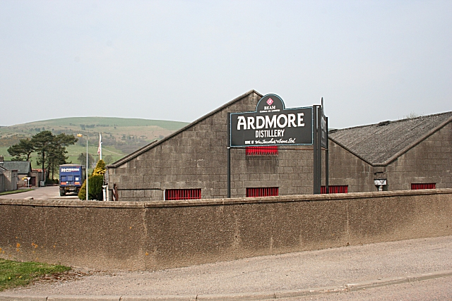 Ardmore Distillery The name of this distillery is not at all apt. The Gaelic 'ard mòr' means 'large high place' but the distillery is built on flat land! However it produces a very palatable single malt, as well as whisky for blending. The hill in the background is Knockandy Hill.